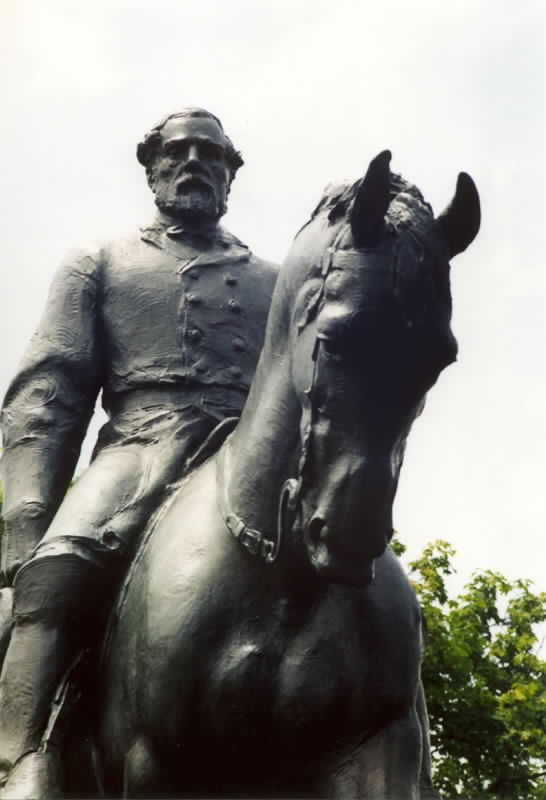 Statue of Lee by Leo Lentilli located in Charlottesville, Virginia photo by Einar Einarsson Kvaran, Robert E Lee